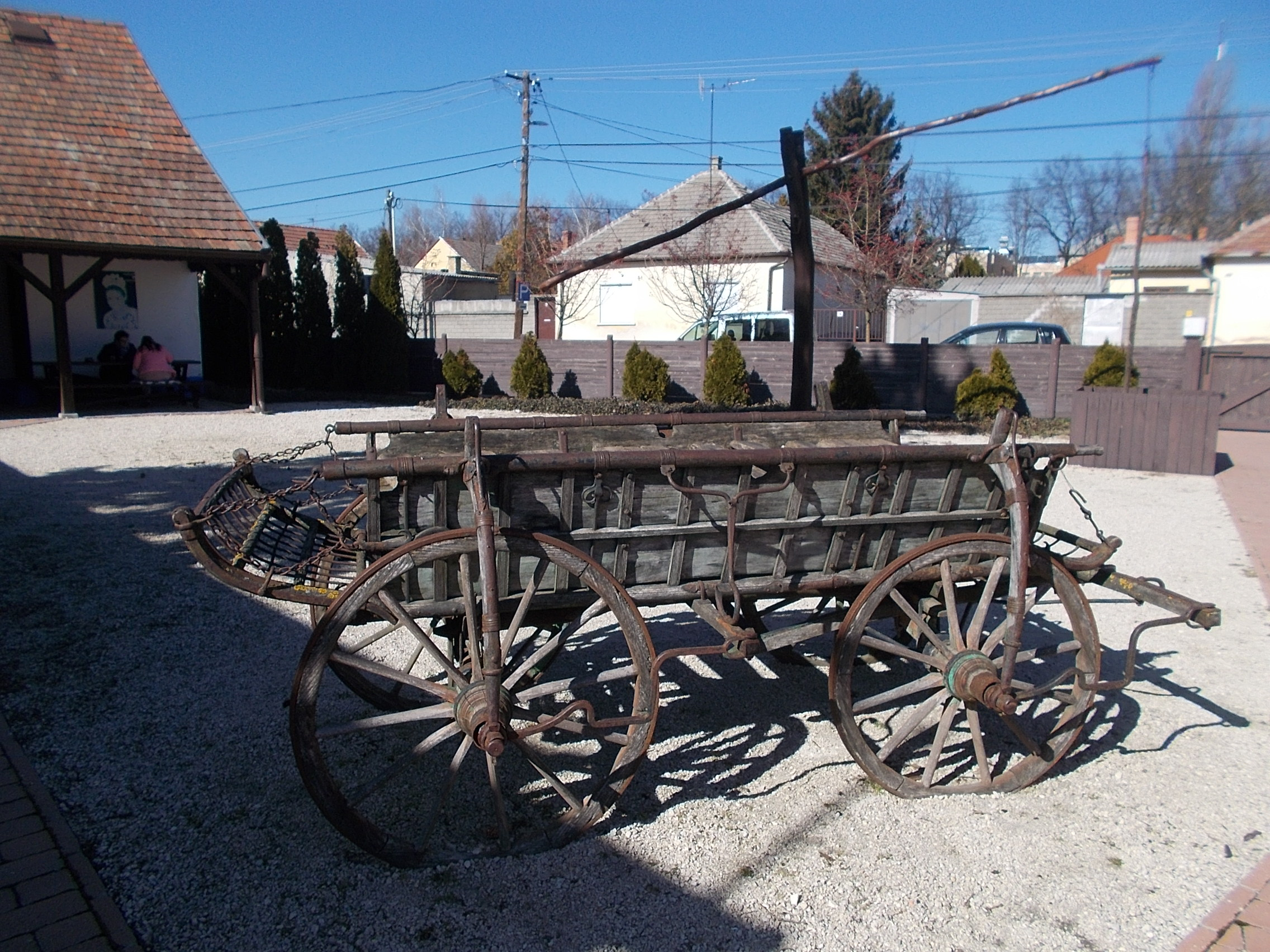 Folk Art House. A farmer house. A thached mud bricks house. [1], courtyard - Kalocsa, Bács-Kiskun County.